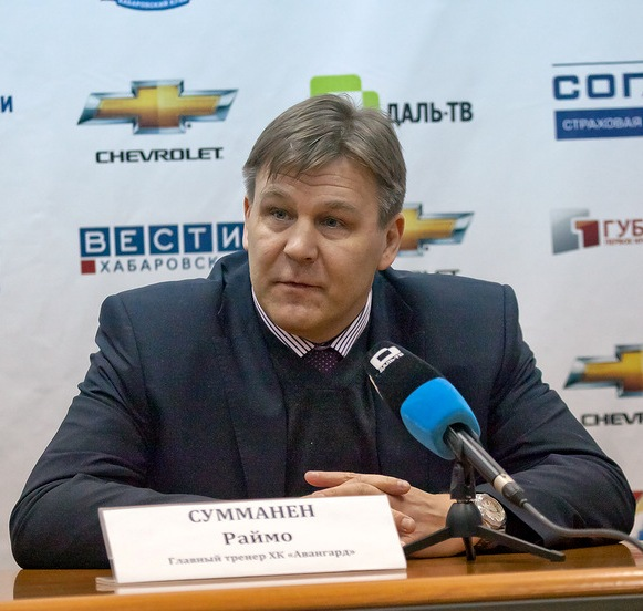 HC Avangard Omsk head coach Raimo Summanen after KHL playoff game against Amur Khabarovsk on March 5, 2012 (Avangard won 3-1, sweeping Amur in the Gagarin Cup first-round series).